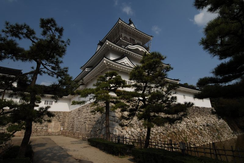 Toyama castle.